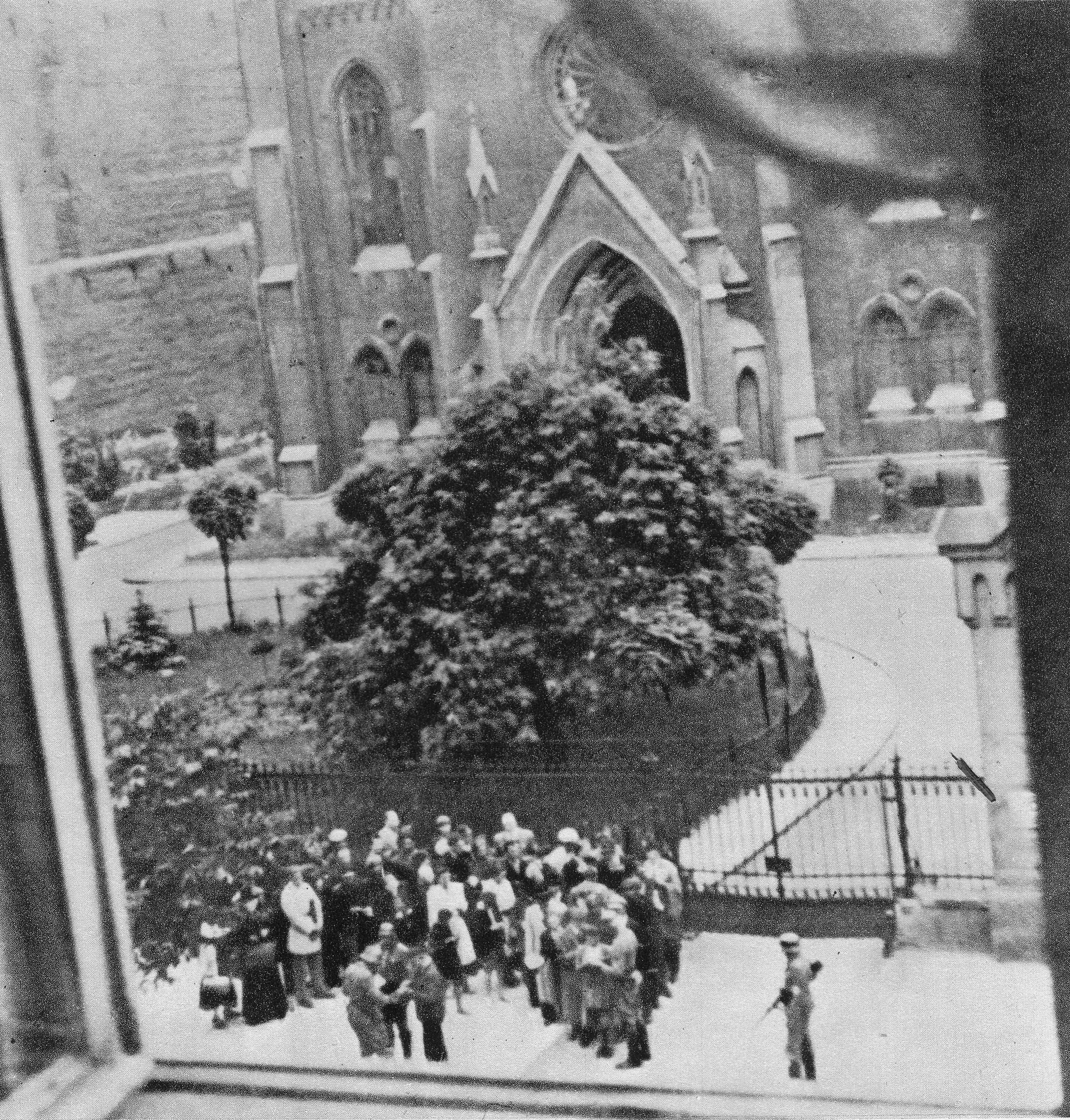 A roundup in Leszno Street in Warsaw